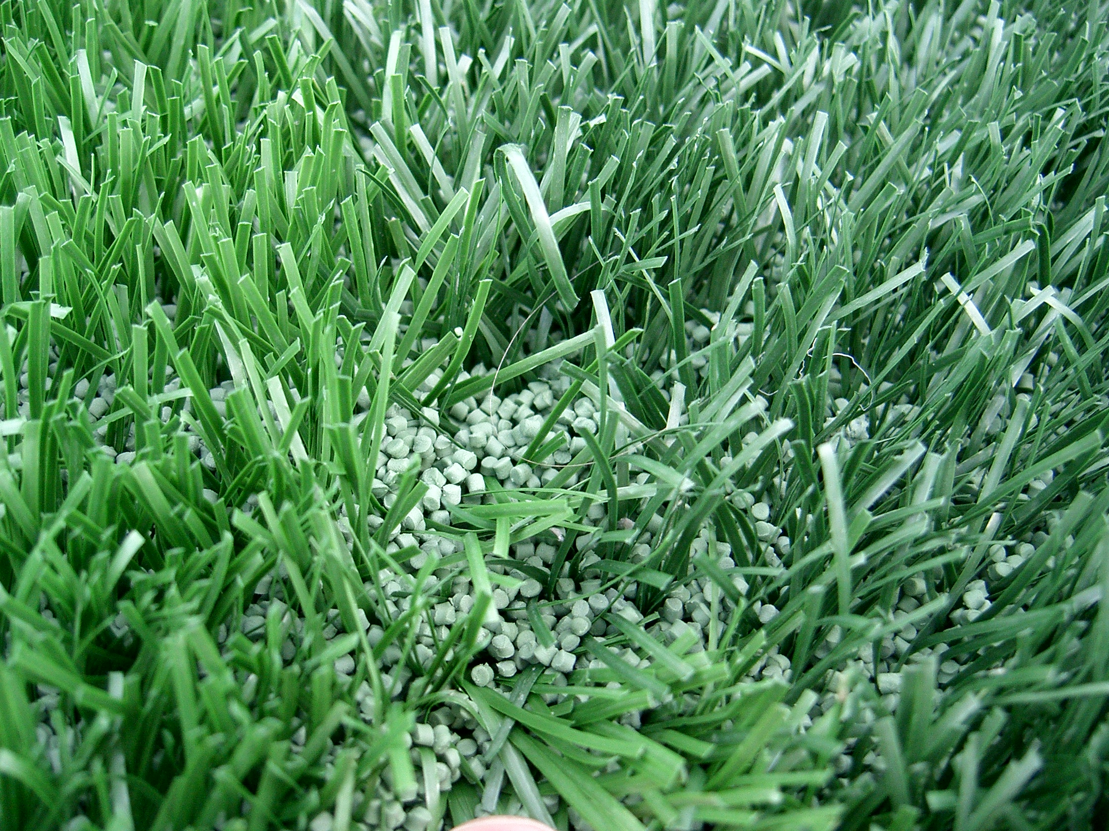 Artificial turf, Alfheim stadium, Tromsø, Norway. Photo: Guttorm Raknes, 2006-07-16